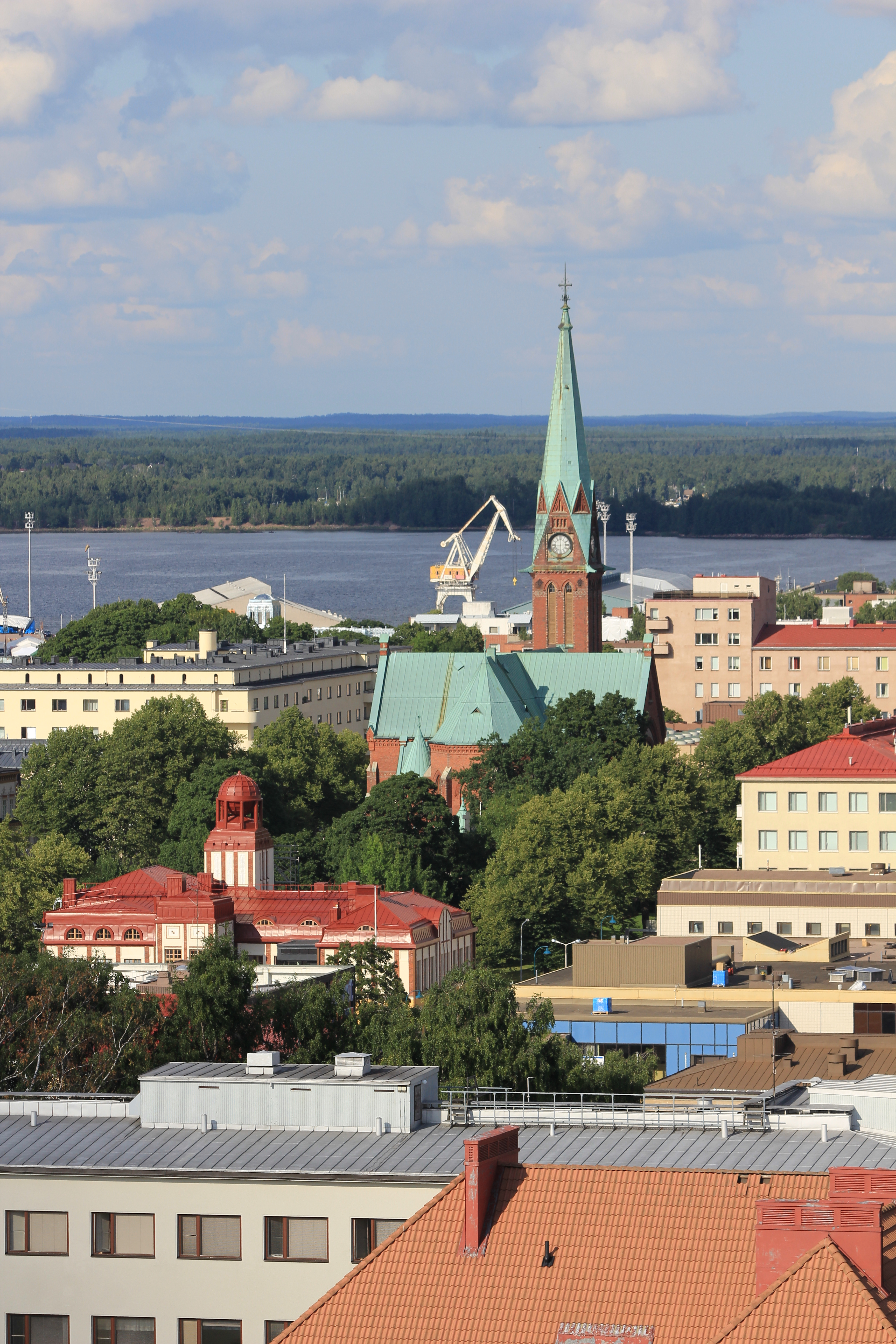 Kotka church, photographed from Haukkavuori observation tower.